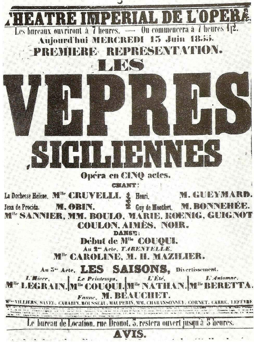 First performance of Verdis Opera "Les vêpres siciliennes"